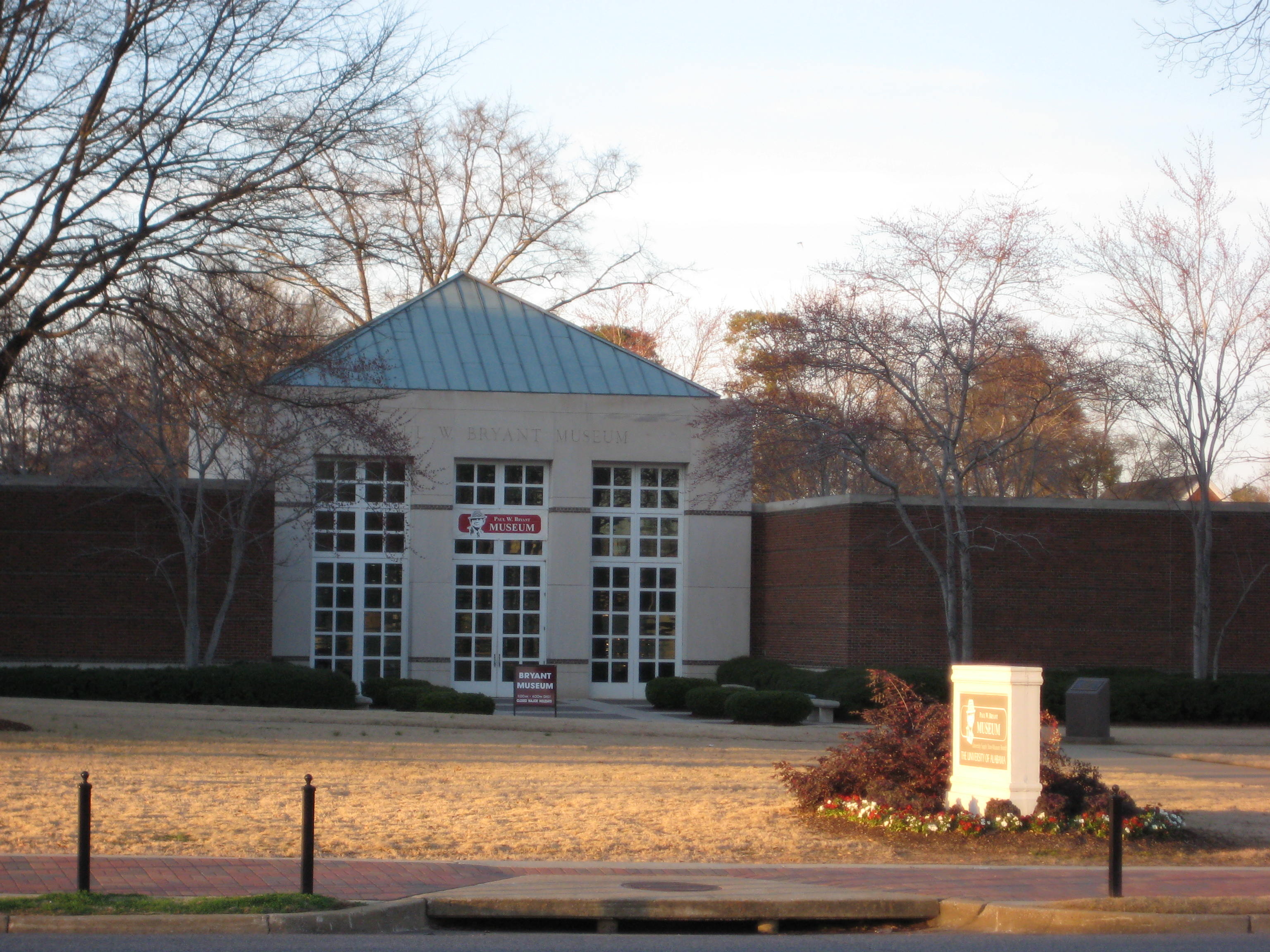 Photo of the Paul W. Bryant Museum at the University of Alabama.